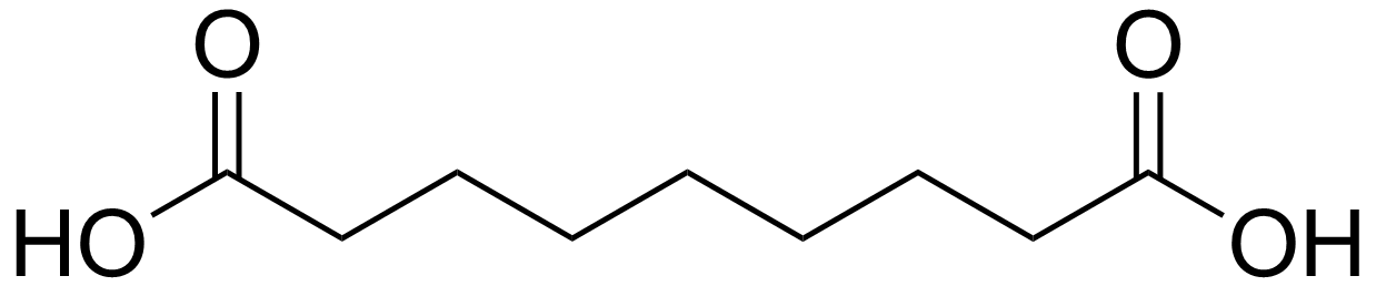 Chemical structure of azelaic acid created with ChemDraw.